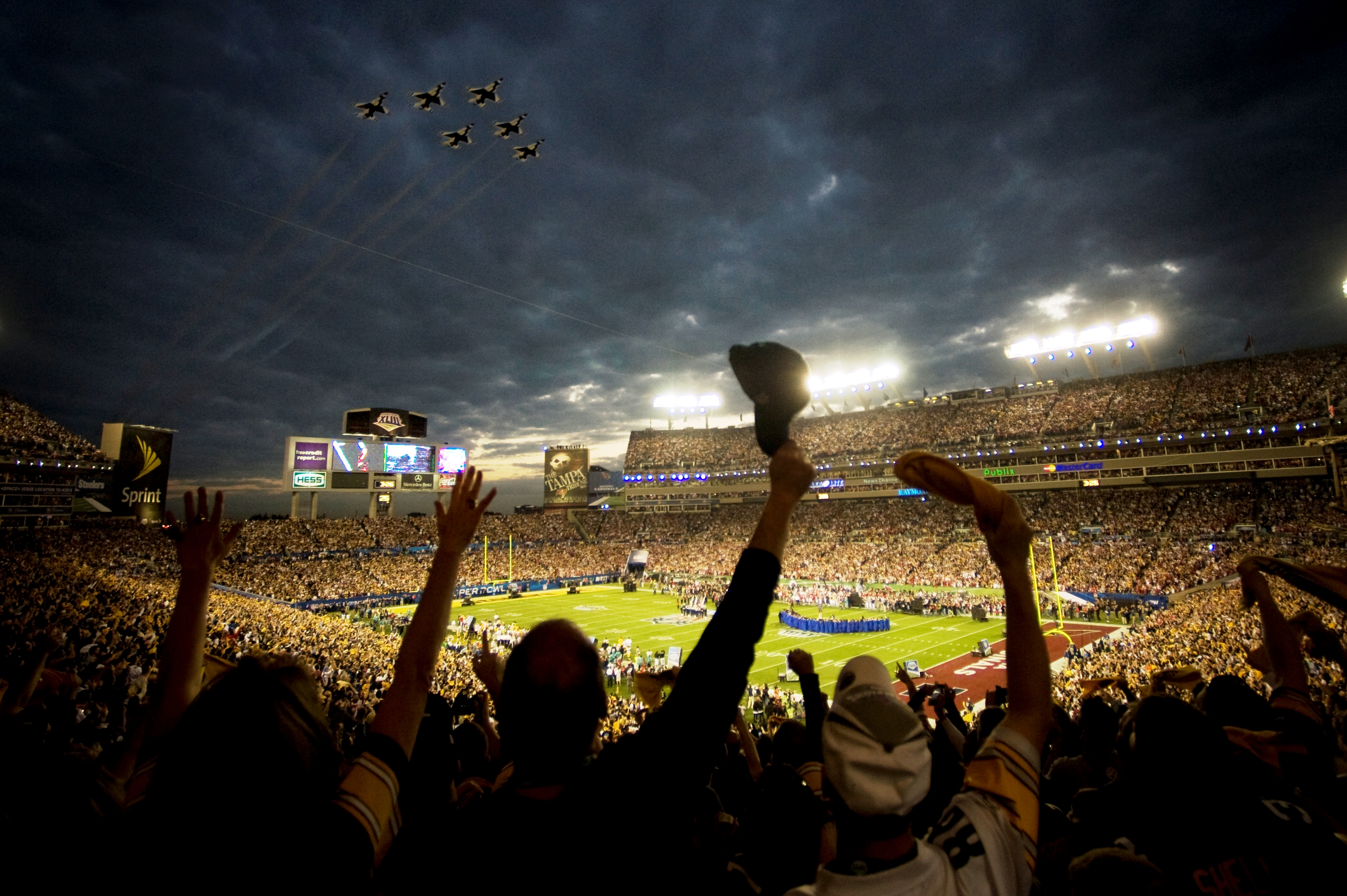 The U.S. Air Force Thunderbirds fly over Superbowl XLIII prior to kickoff in Tampa, Fla., Feb. 1.